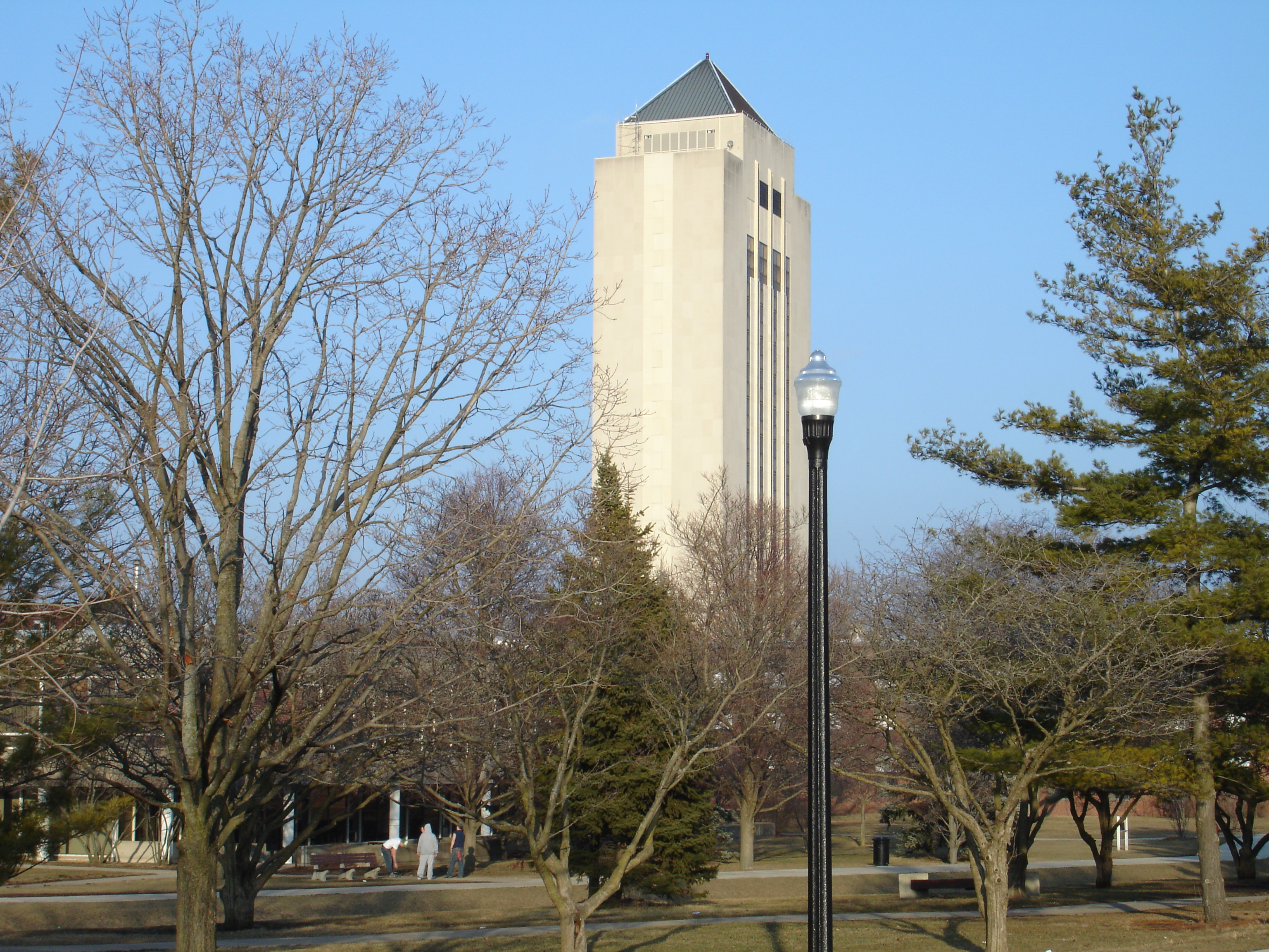 Holmes Student Center Hotel tower, Northern Illinois University. DeKalb, Illinois